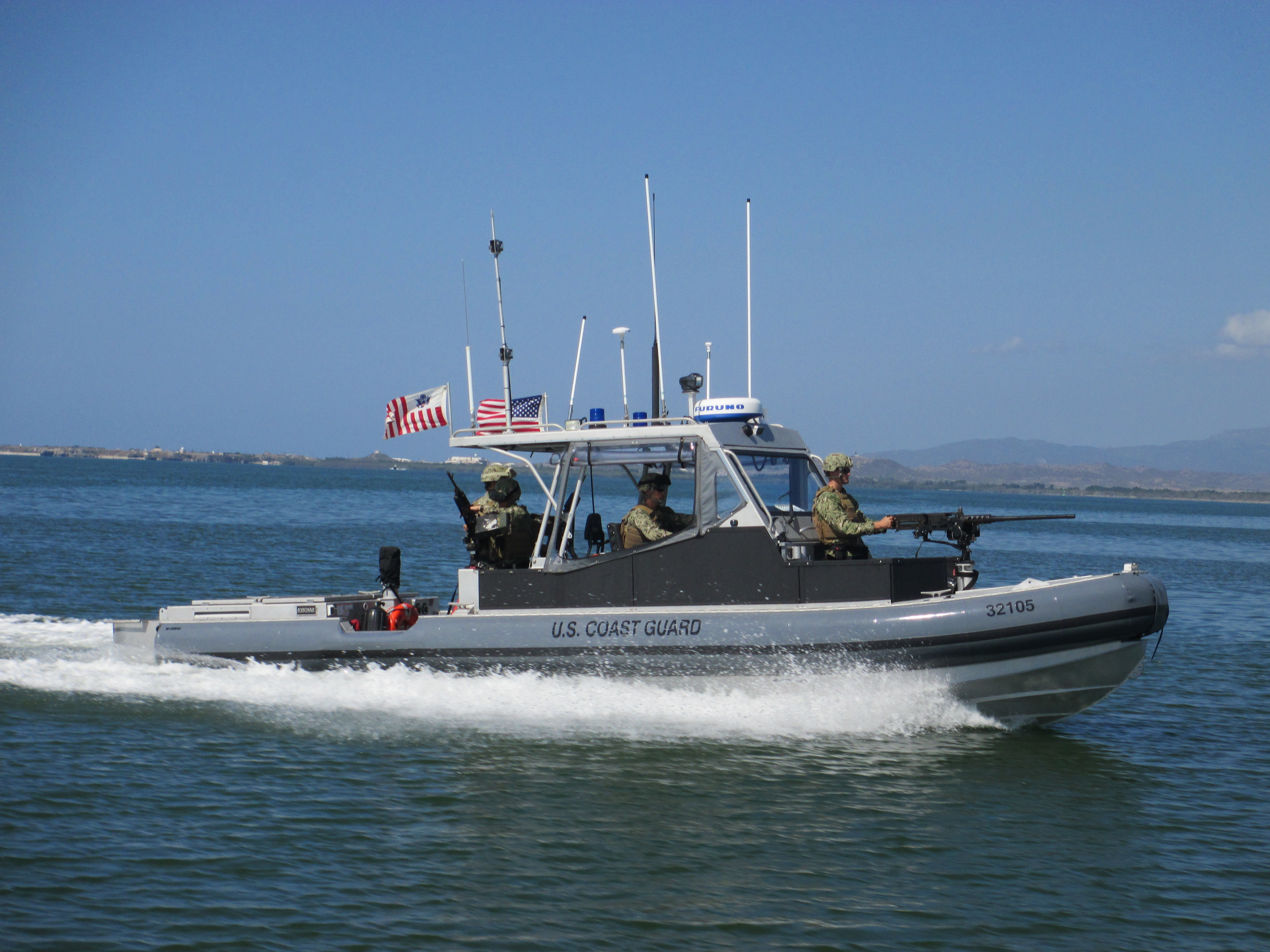 GUANTANAMO BAY, Cuba - A Port Security Unit 311 boat crew mans patrols the waters around Naval Station Guantanamo Bay aboard a new 32-foot Transportable Port Security boat, April 3, 2013. PSU 311 members will use the new TPSB to secure the port and waterways around the naval station. U.S. Coast Guard photo by Cmdr. John Caraballo.